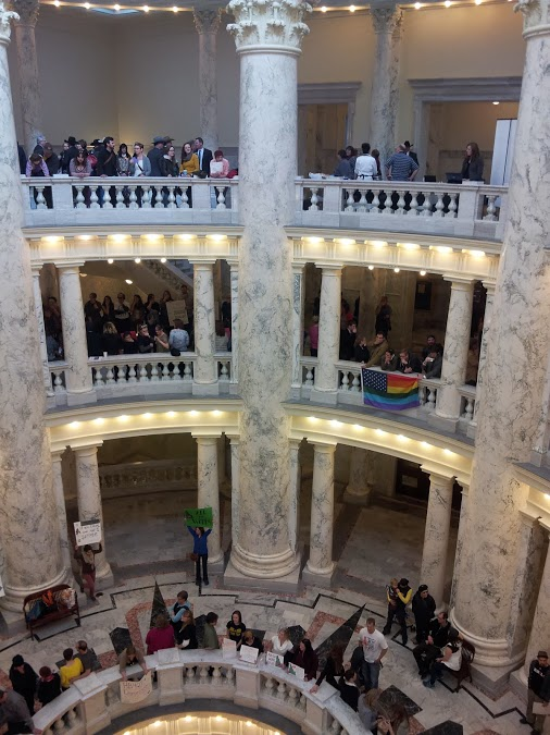 A peaceful demonstration on behalf of the Add the Words campaign and against HB427 held in the Idaho capitol on Presidents' Day 2014.